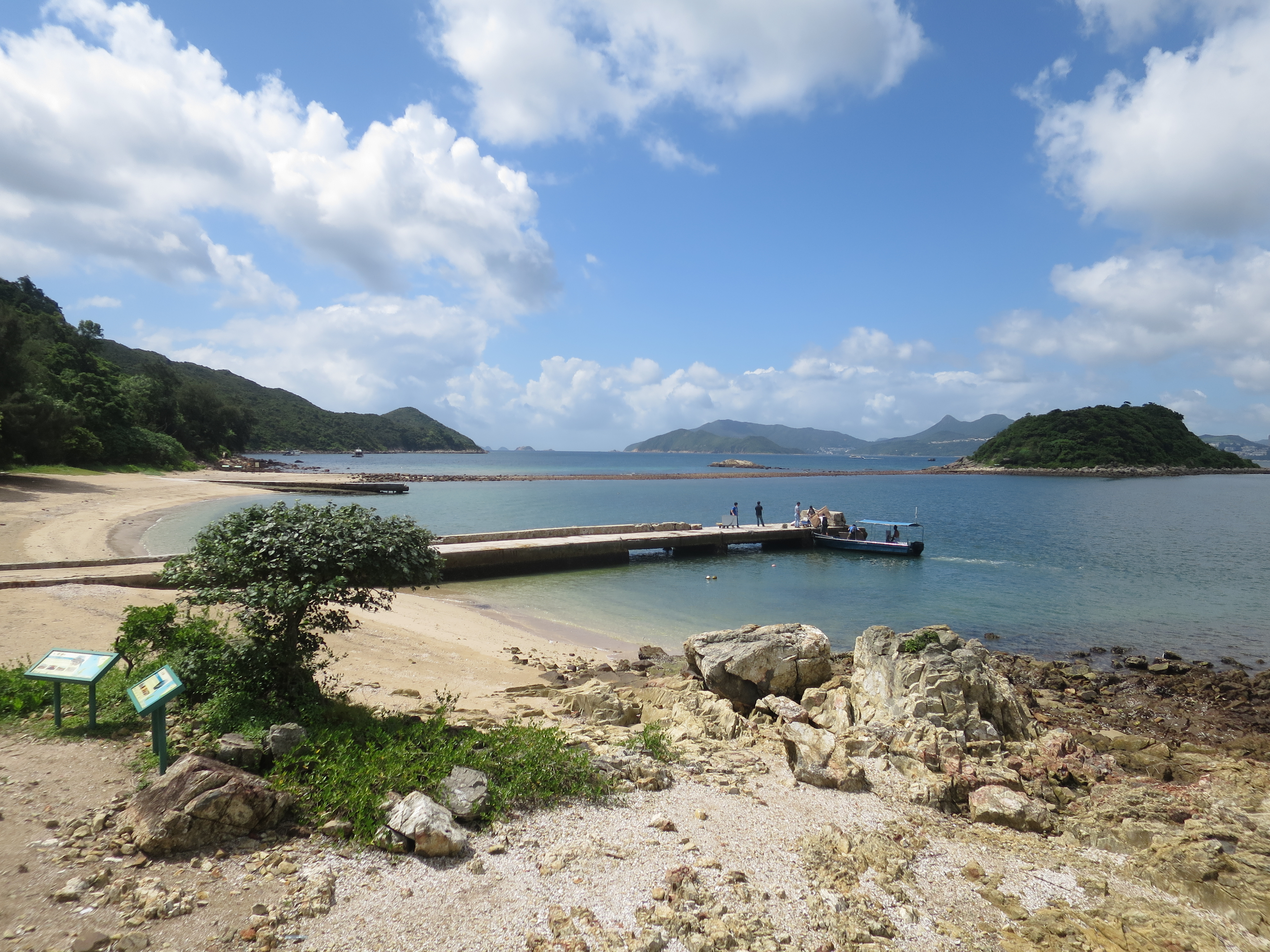 Photo taken near Kiu Tsui Pier looking towards the islet named Kiu Tau to the Southwest connected by the tombolo